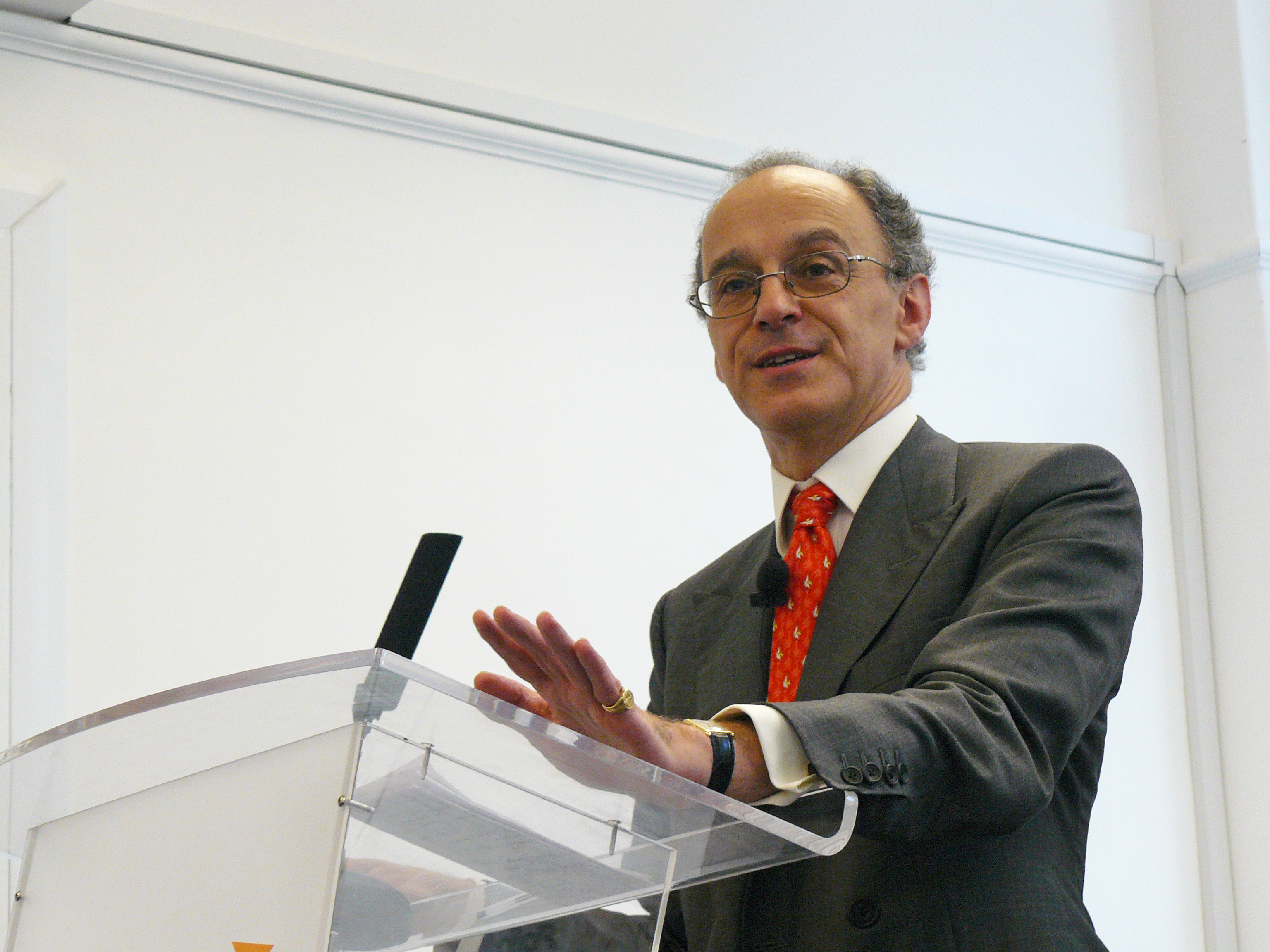 Lord Sassoon, Commercial Secretary to the Treasury, at 'Planning for Infrastructure and Growth How to ensure London’s place in the global economy'.